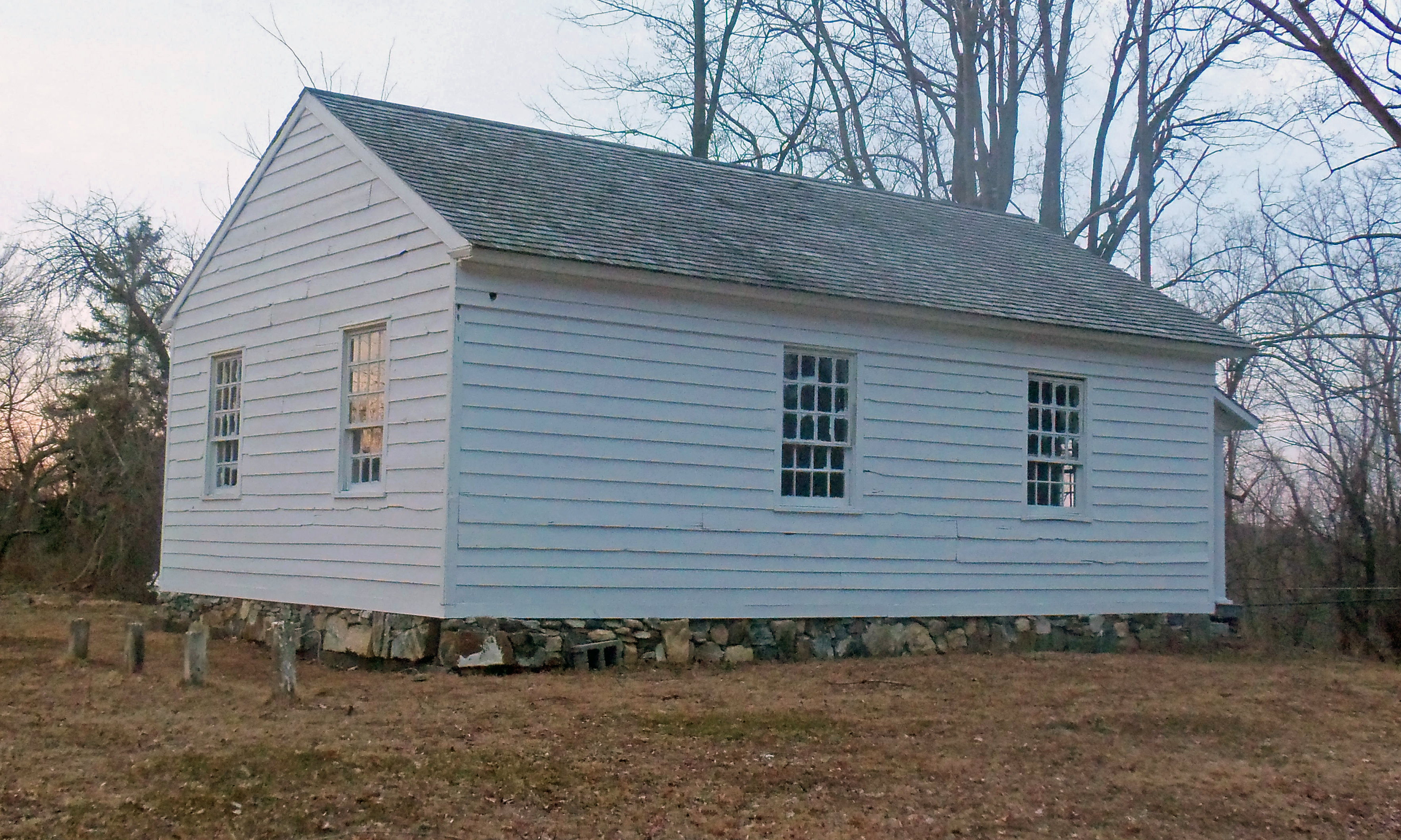 Rear and south elevations of the West Somers Methodist Episcopal Church building in Somers, NY, USA